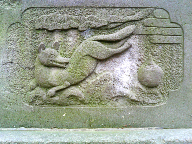 Stone relief of Inari fox. - on a base stone under the fox statue at Wada Inari-jinja, in Shakujii-machi, near Shakujii-kōen Station, Nerima ward, Tokyo, Japan. Kitsune, a fox, as a guardian animal of Inari, with a branch of pine tree liefs, and a peach-like,/onion-shaped, object on the right side, is a "hō･ju", which is believed that it has a power to make wishes come true.